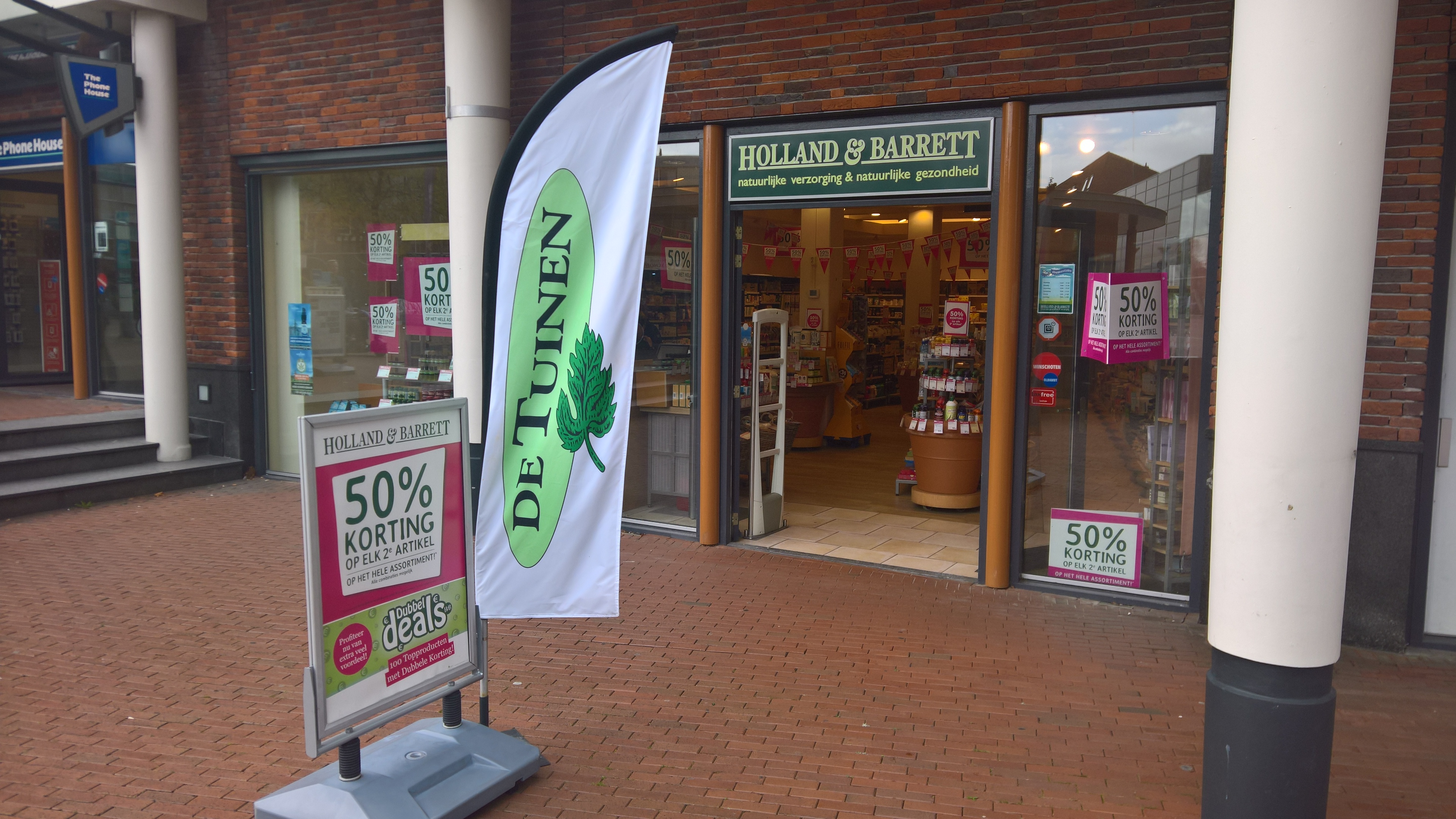 A Holland & Barret (or "De Tuinen") shop in the city 🏙 of Winschoten, Groningen.